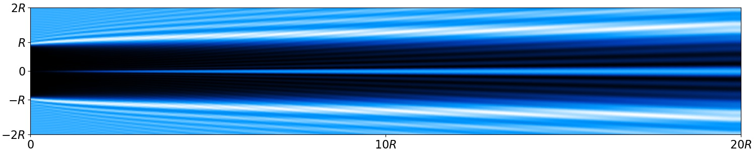 Numerical simulation of the intensity of monochromatic light of wavelength λ = 0.5 µm behind an opaque disc of radius R = λ*10 = 5 µm. For details of the calculations, see our articles : - American Journal of Physics 78, 598 (2010), available at arXiv:0909.2302 - Revue de l'Electricité et de l'Electronique (REE) n°5, 2018, available on HAL : hal-01971578